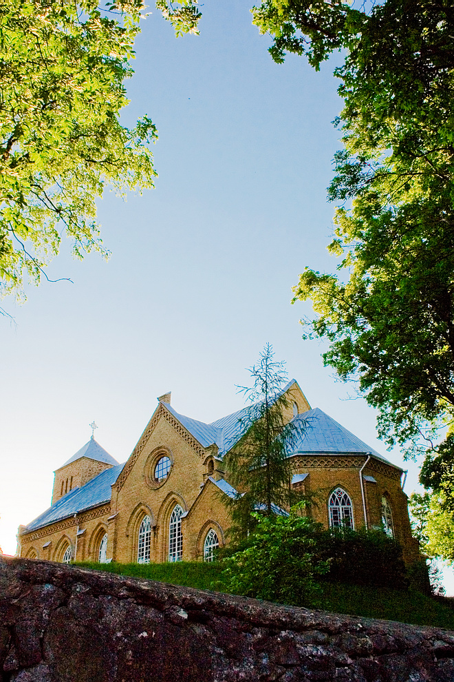 Church of Holy Virgin Mary the Queen of the Rosary, Vepriai (built 1910) in summer.